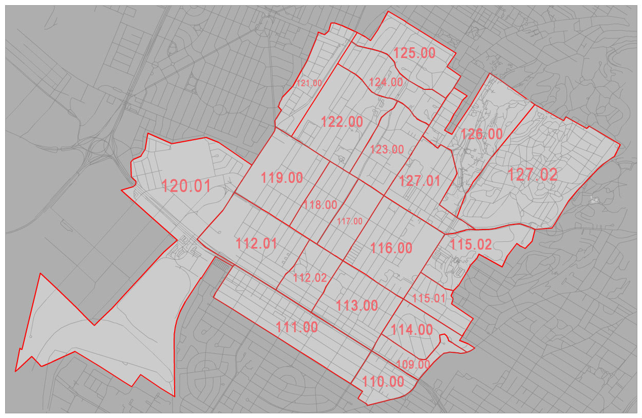 Census tracts for the Cote-des-Neiges neighborhood in Montreal. This map may be incomplete, and may contain errors. Don't rely solely on it for navigation.